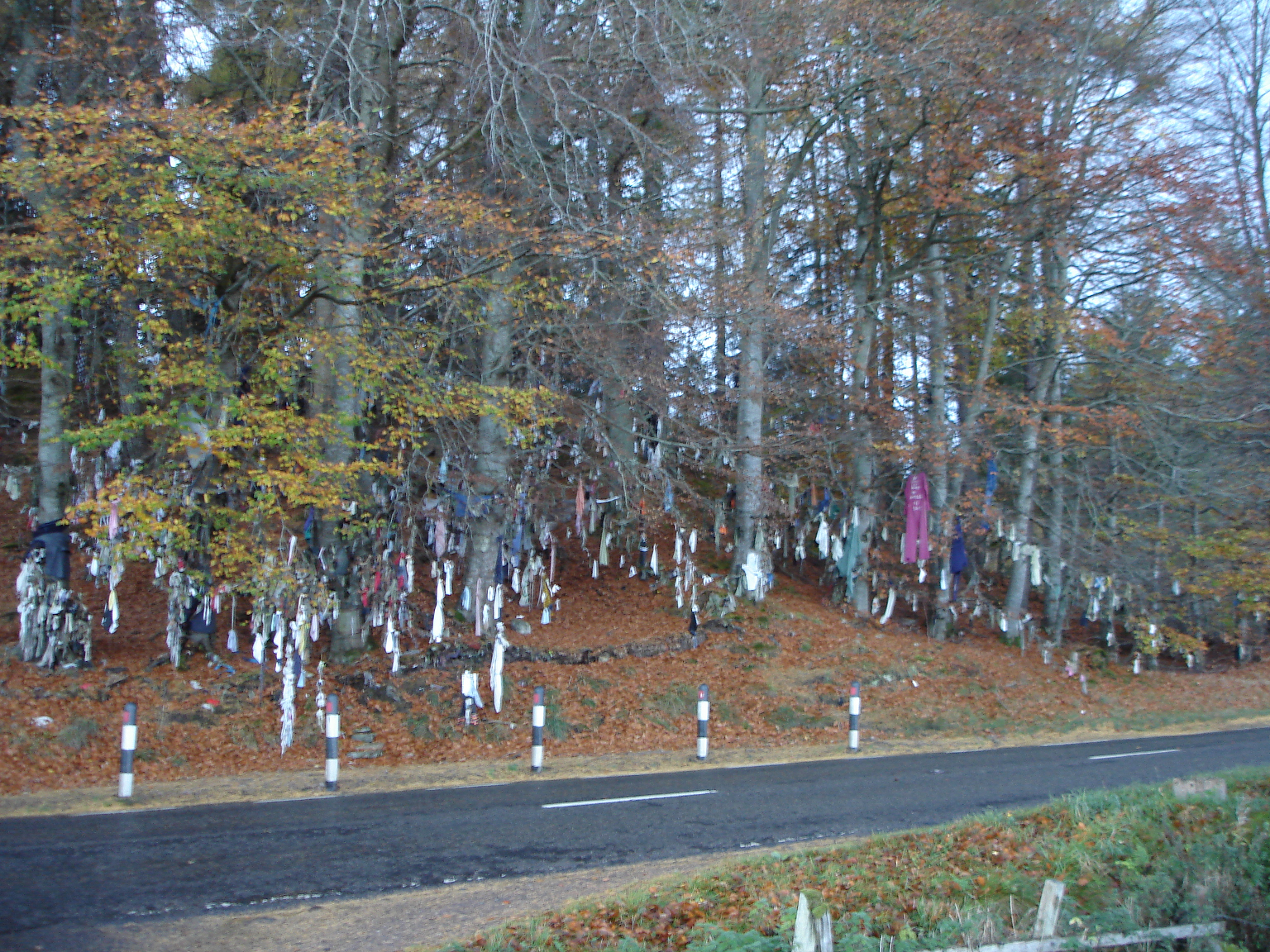 Uploader's own pic.